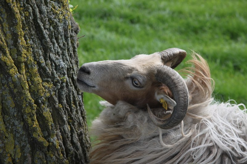 Head of a sheep